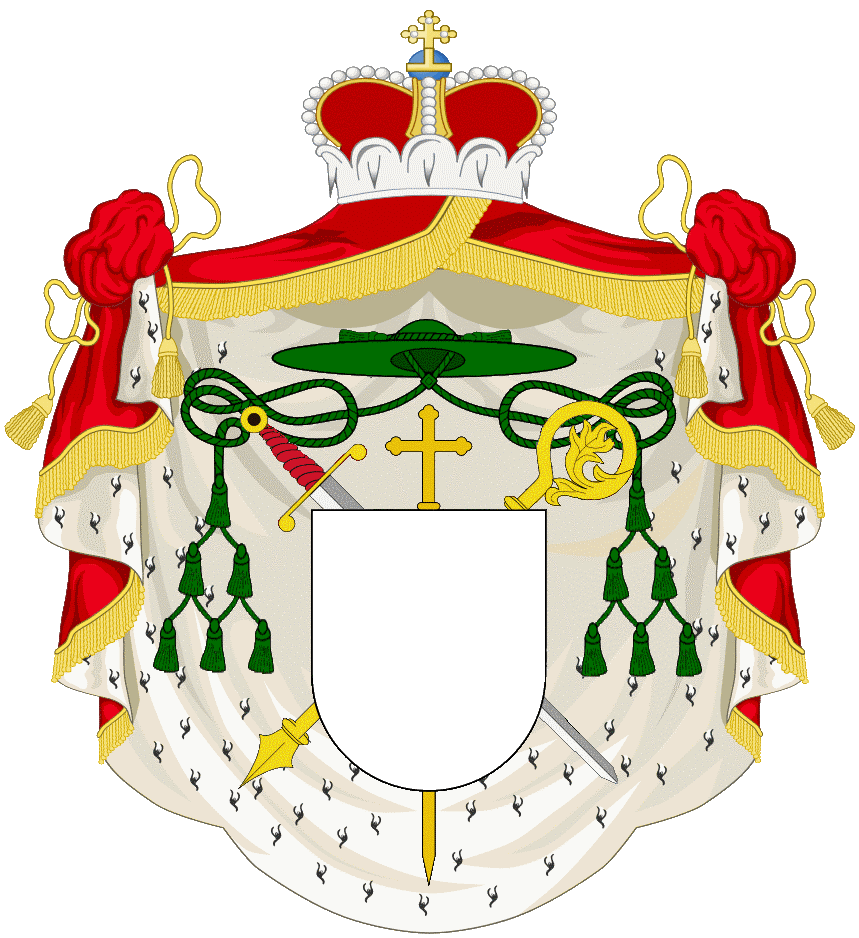 External ornaments for a Prince-Bishop.